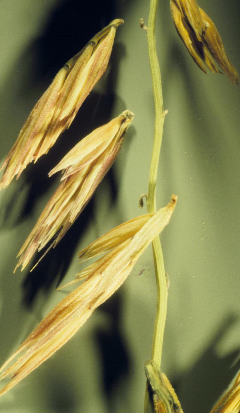 The unit of dispersal is an entire lateral branch comprising about 4-6 spikelets. Disarticulation occurs near the base of the side branch of the inflorescence.